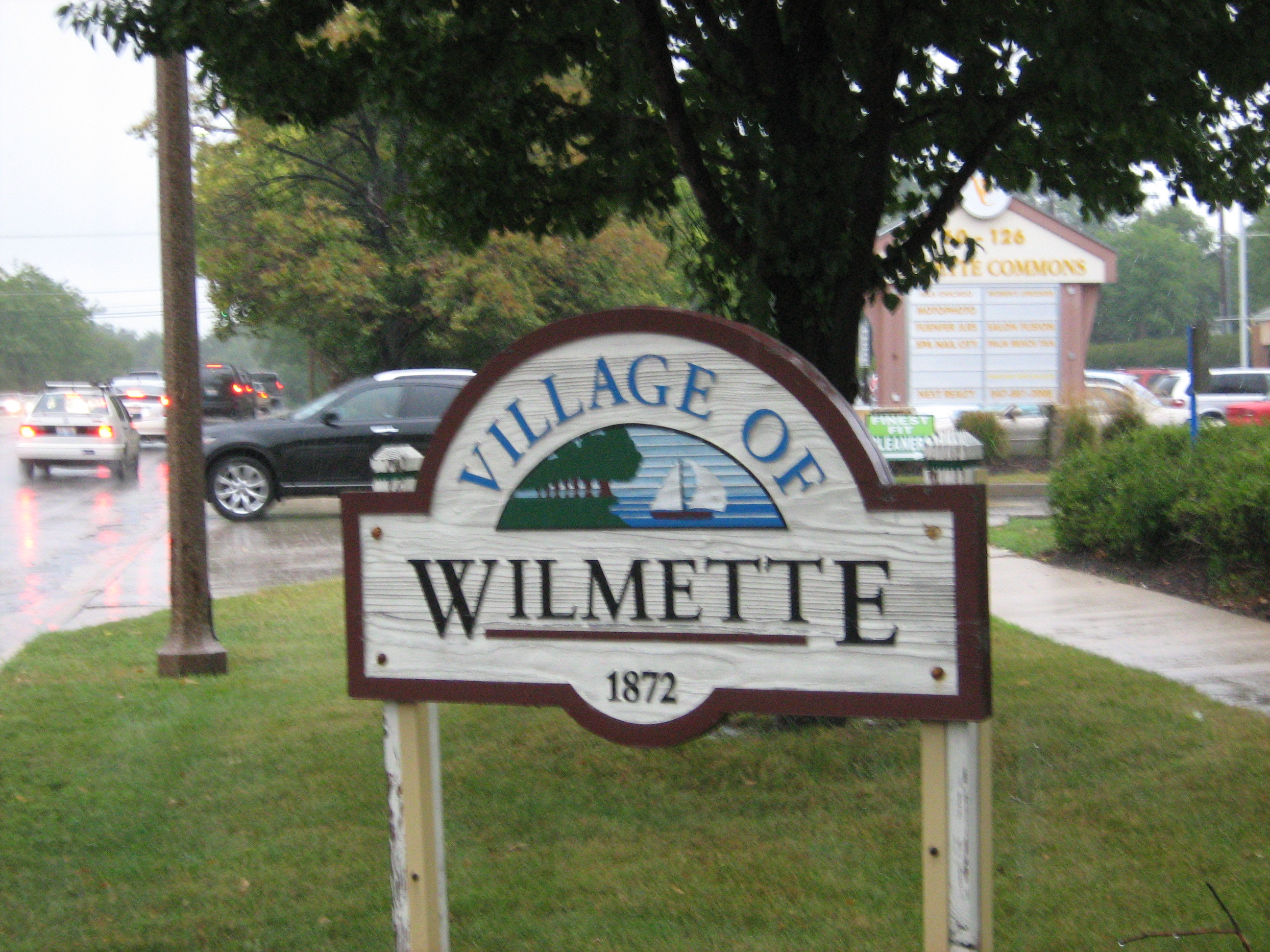 Village of Wilmette Welcome Sign